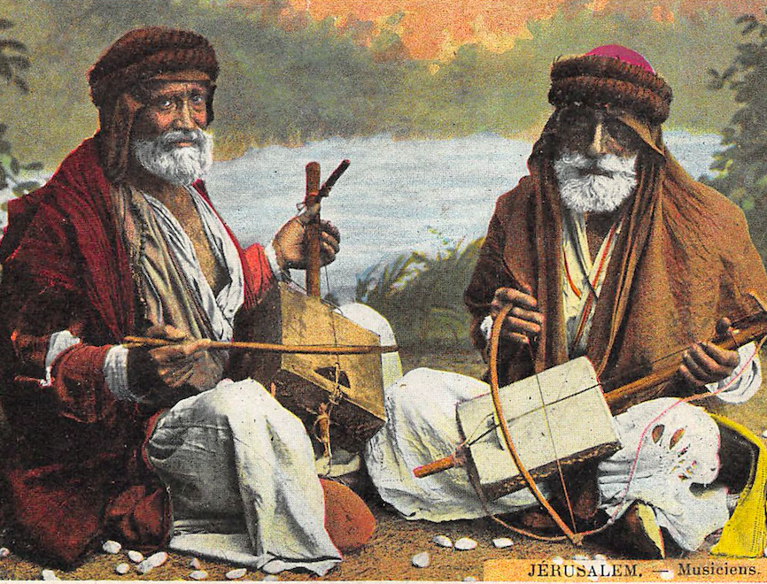 Jerusalem Muscians